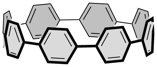 Chemical line drawing of a [8]cycloparaphenylene